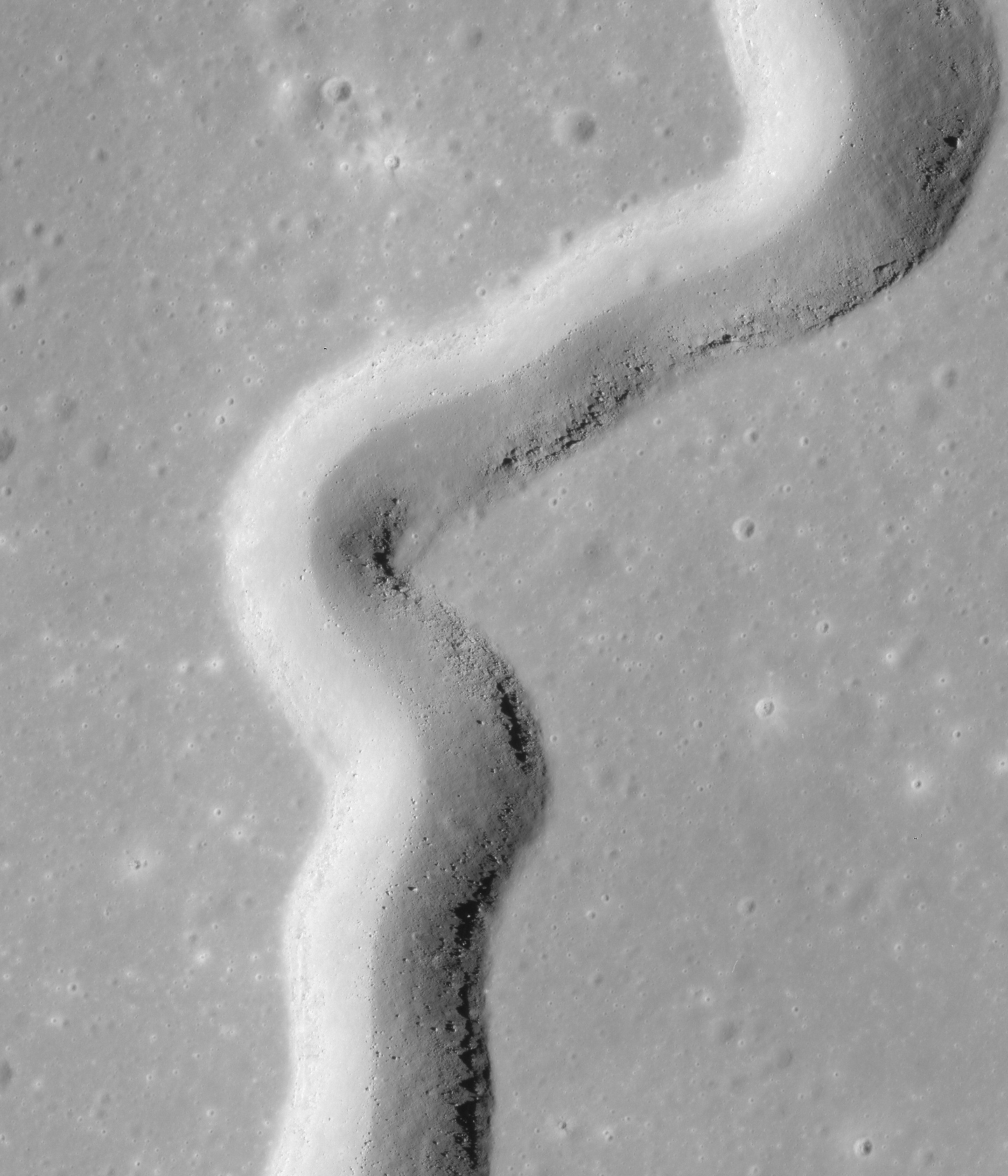 This is figure 206 of Apollo Over the Moon: A View from Orbit (NASA Special Publication 362, 1978), which has the following caption:This part of Hadley Rille is far south of the (Apollo 15) landing site. Lines of outcrops of mare basalt in the upper rille walls suggest thick layering in the basalt. Notice how the edges of the rille stay parallel to each other. One origin suggested for the rille is that it is a graben or fault valley. In its present form, however, the rille could not have formed as a fracture because the sides will not fit back together.-K.A.H.Original image is AS15-P-9816.